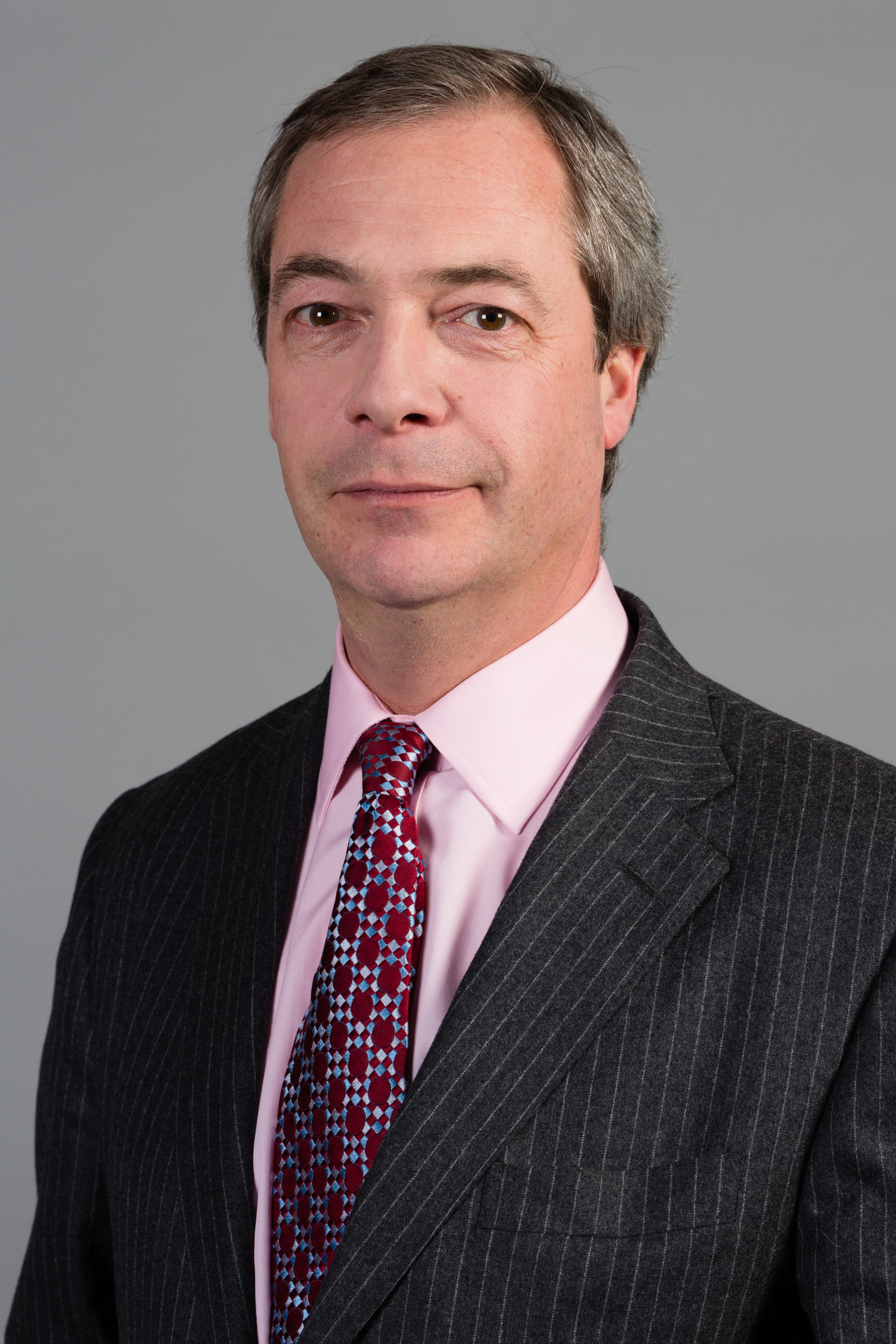 Nigel Farage, Member of the European Parliament for the United Kingdom in Strasbourg, France